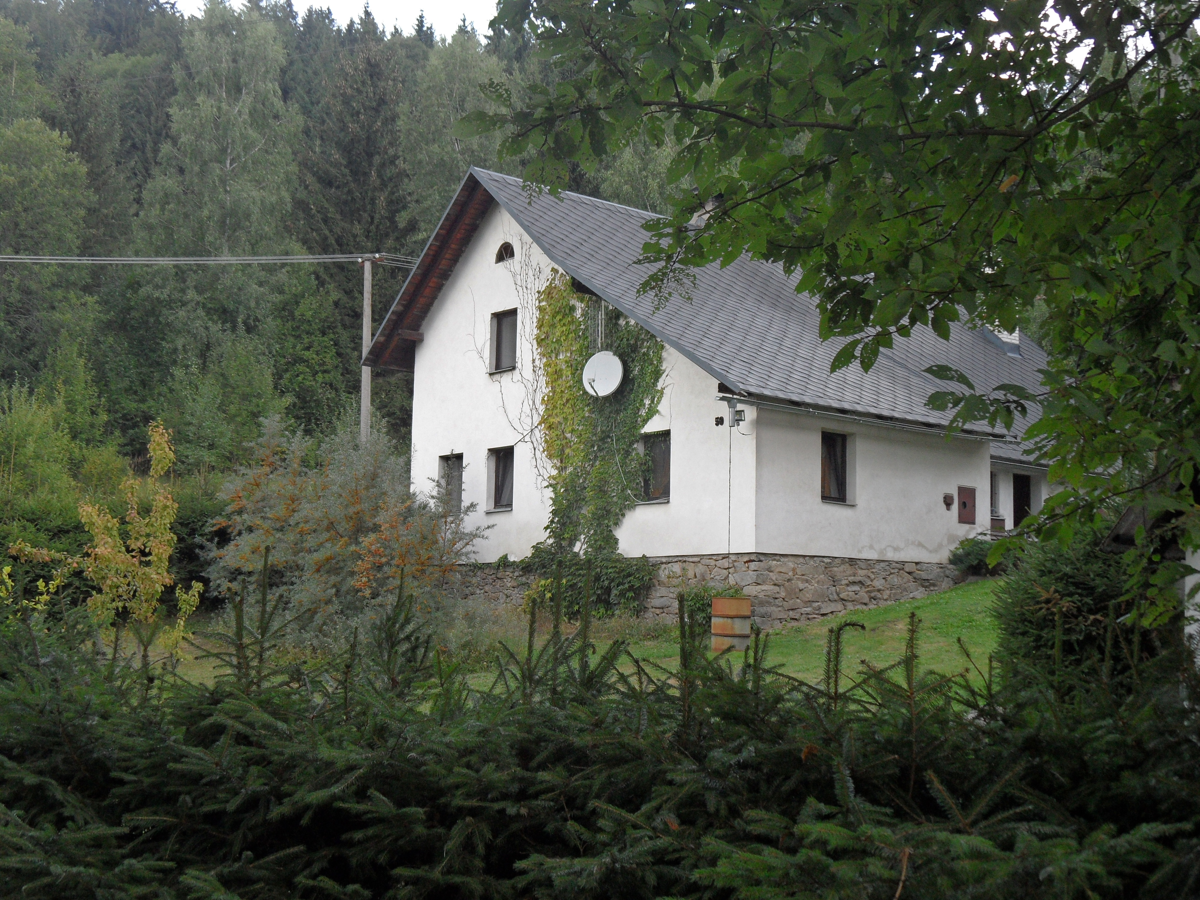 Bukovice (Velké Losiny): Family House. Šumperk District, the Czech Republic